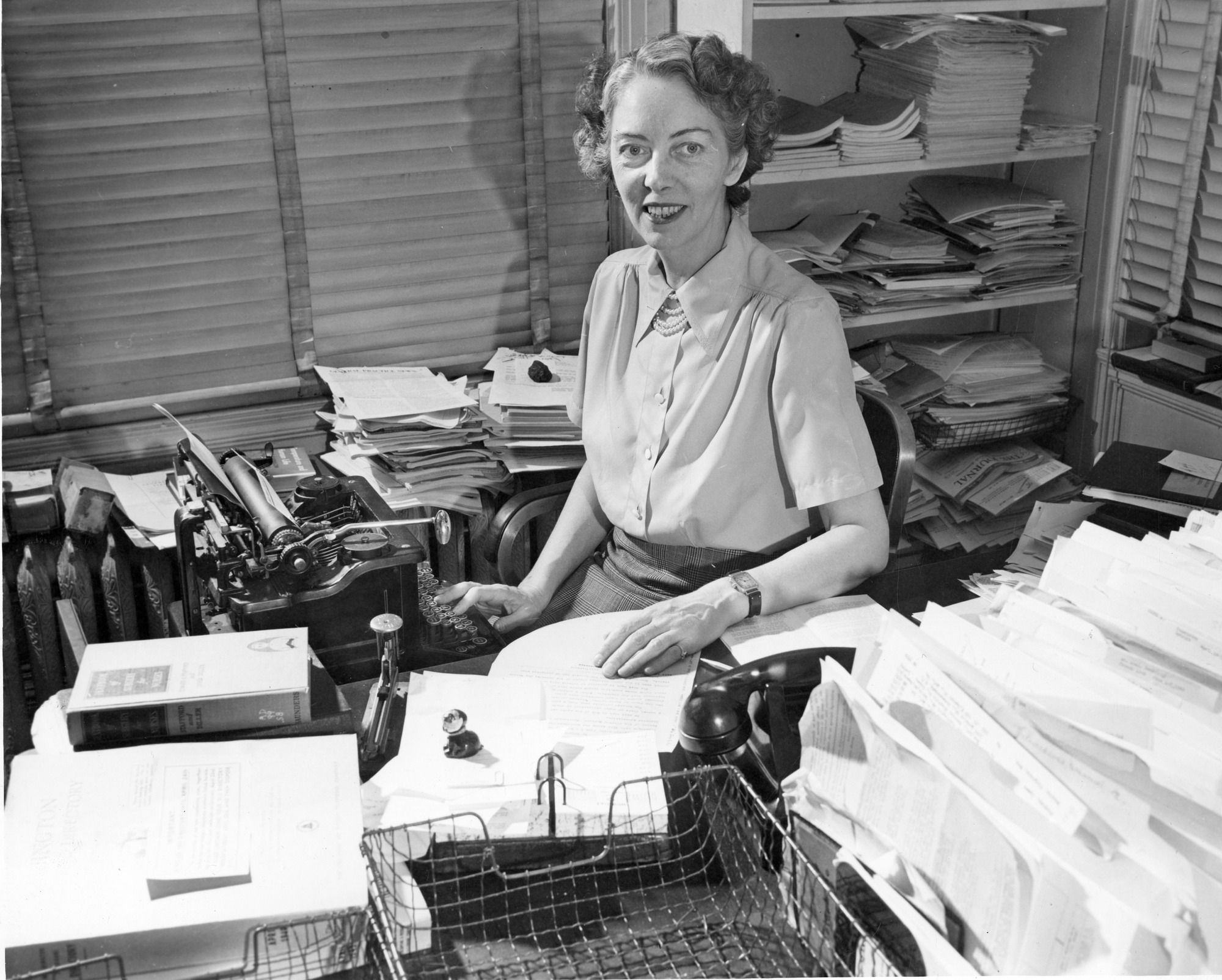 Subject: Stafford, Jane 1899-1991 Smith College American Medical Association Science Service National Institutes of Health (U.S.) National Association of Science Writers Women's National Press Club (U.S.) Type: Black-and-white photographs Topic: Chemistry Journalism, Scientific Local number: SIA Acc. 90-105 [SIA2009-3715] Summary: Although she had majored in chemistry at Smith College, Jane Stafford (1899-1991) spent most of her career communicating about medicine. She worked at the American Medical Association before joining Science Service as medical editor and writer in 1927, where she covered some of the most important discoveries and people in medical research until leaving to work at the U.S. National Institutes of Health in 1956. Well-respected by her fellow journalists, she served as president of the National Association of Science Writers in 1945 and the Women's National Press Club, 1949-1950 Cite as: Acc. 90-105 - Science Service, Records, 1920s-1970s, Smithsonian Institution Archivess Persistent URL:Link to data base record Repository:Smithsonian Institution Archives View more collections from the Smithsonian Institution.